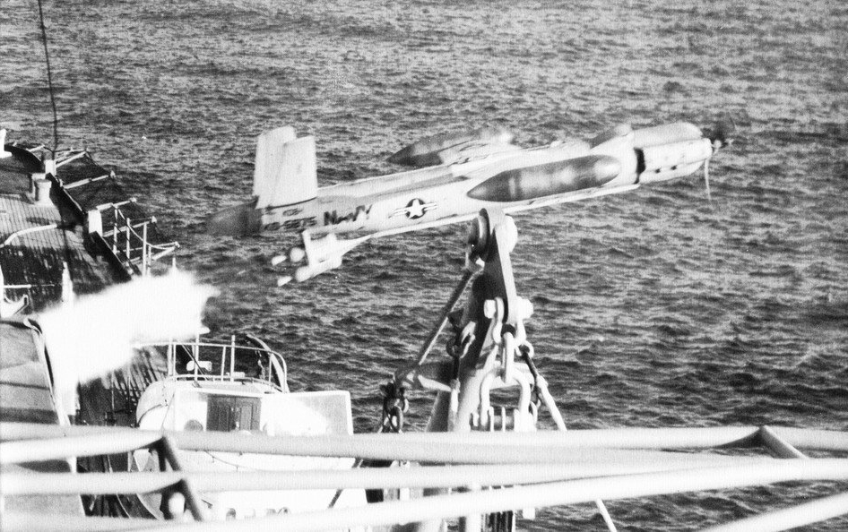 A Beechcraft KDB-1 Cardinal target drone is launched from the U.S. Navy guided missile cruiser USS Boston (CAG-1).